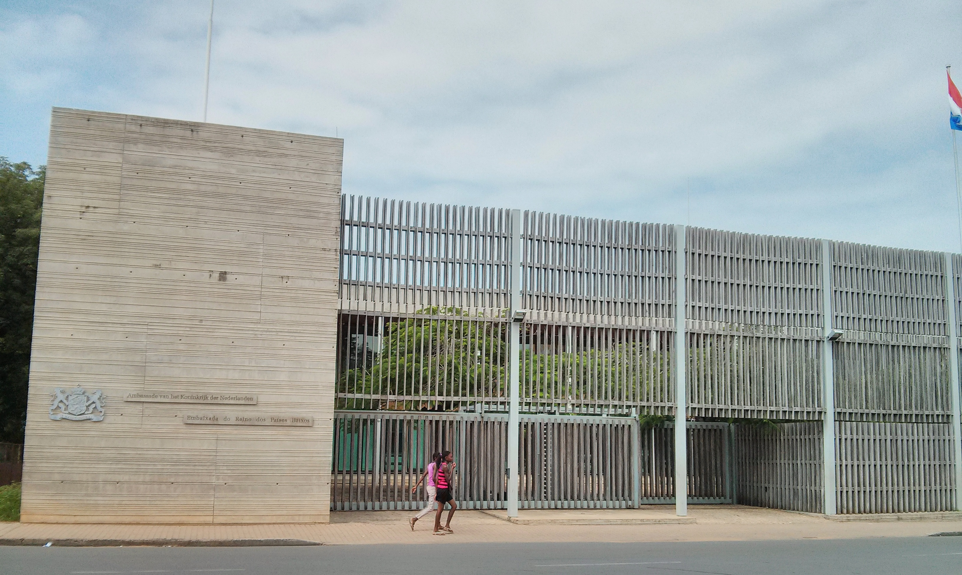 Embassy of the Netherlands in Maputo, Mozambique